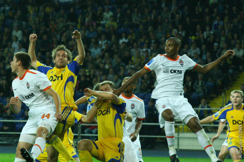 Episode of the game Metallist vs Shakhtar, September 2009